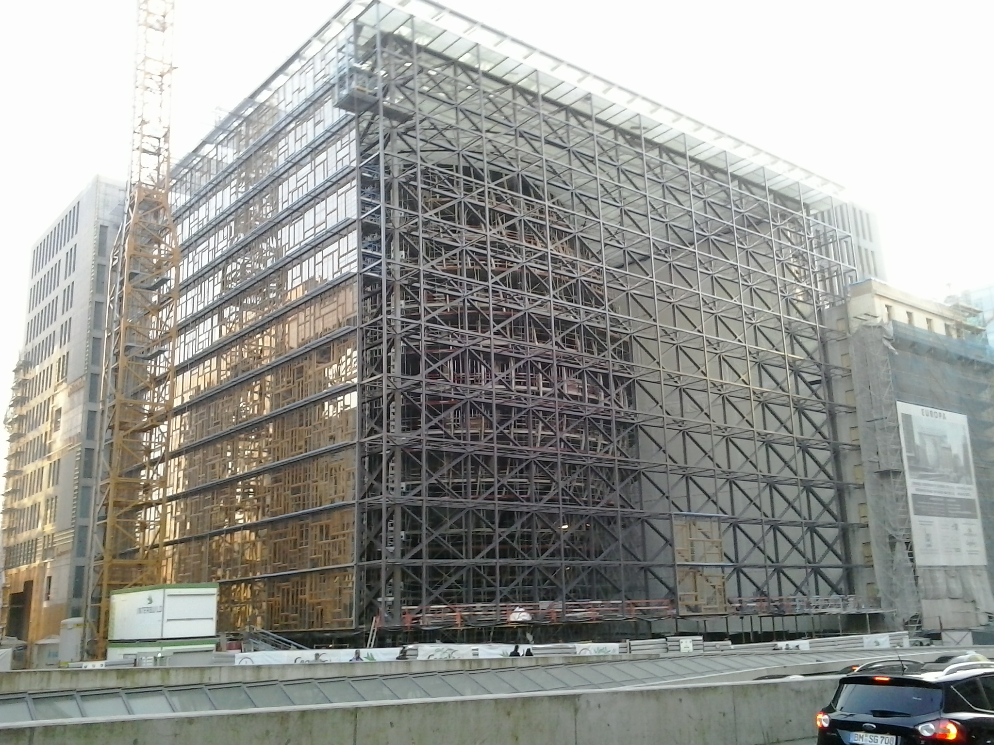 Europa Building, Brussels, under construction in March 2014